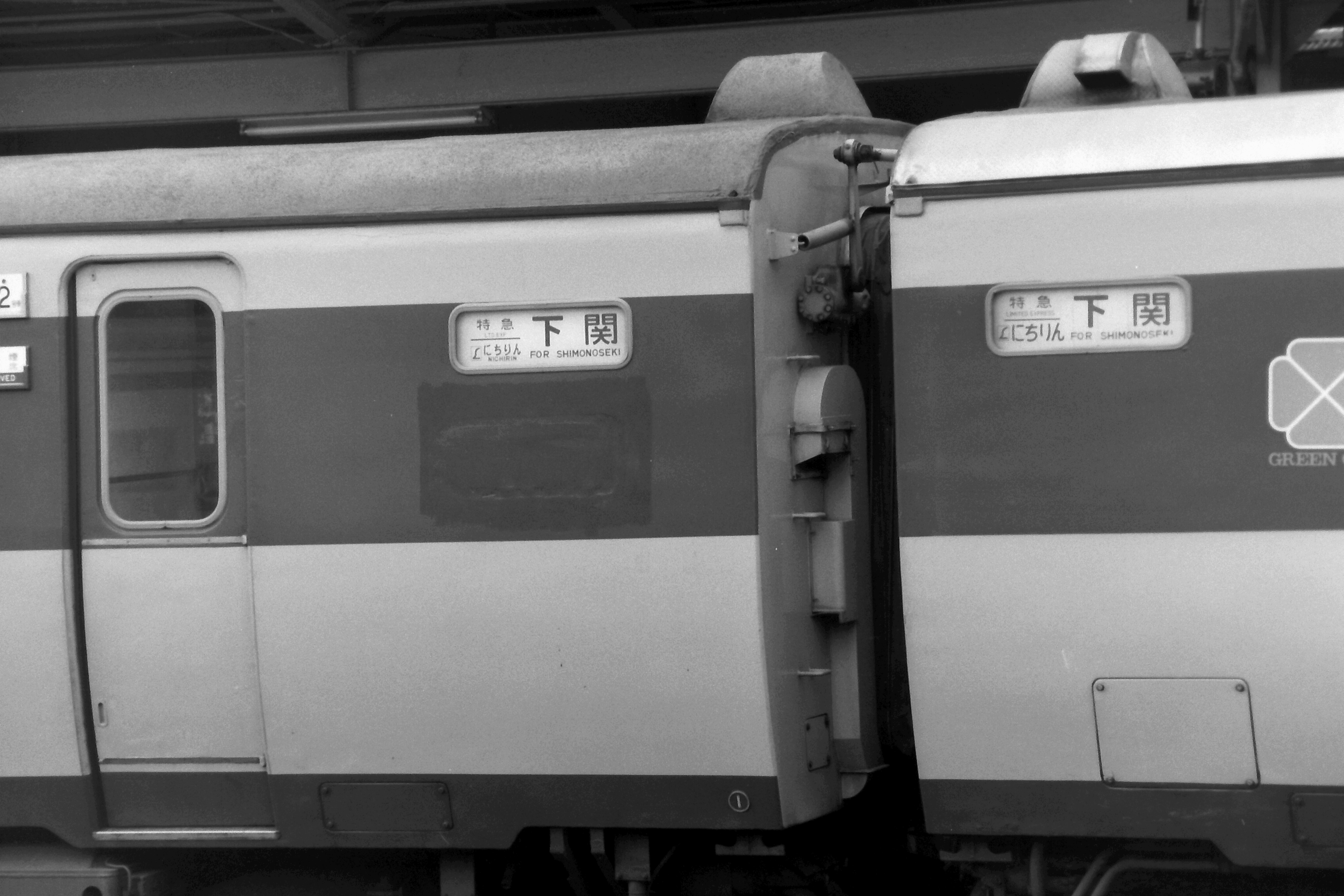 A JR Kyushu 485 series EMU at Oita Station on a Nichirin limited express service to Shimonoseki